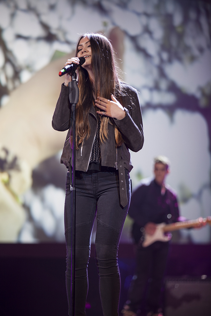 Jasmine Thompson performing at the Webvideopreis 2015.